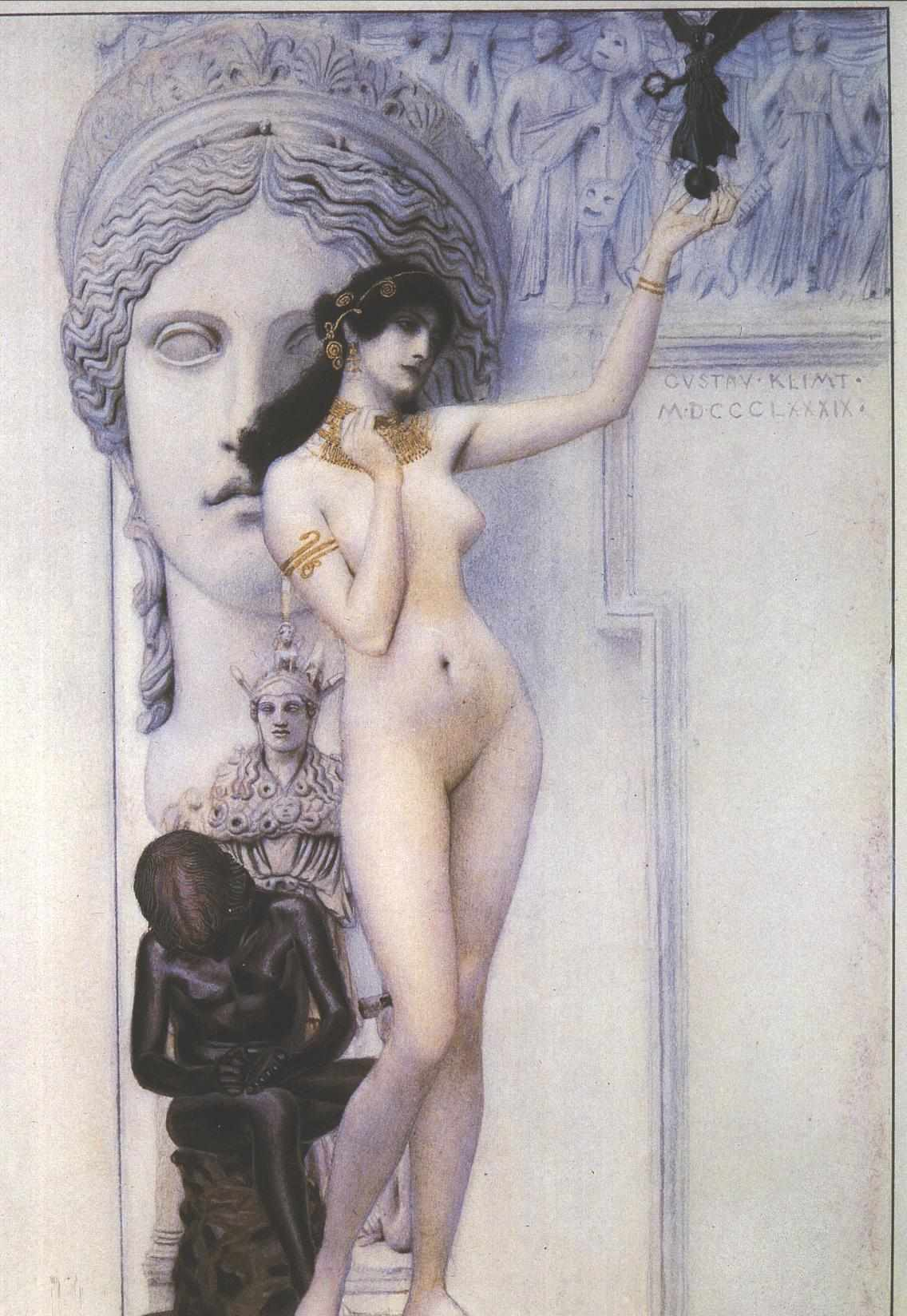 Allegory of skulpture